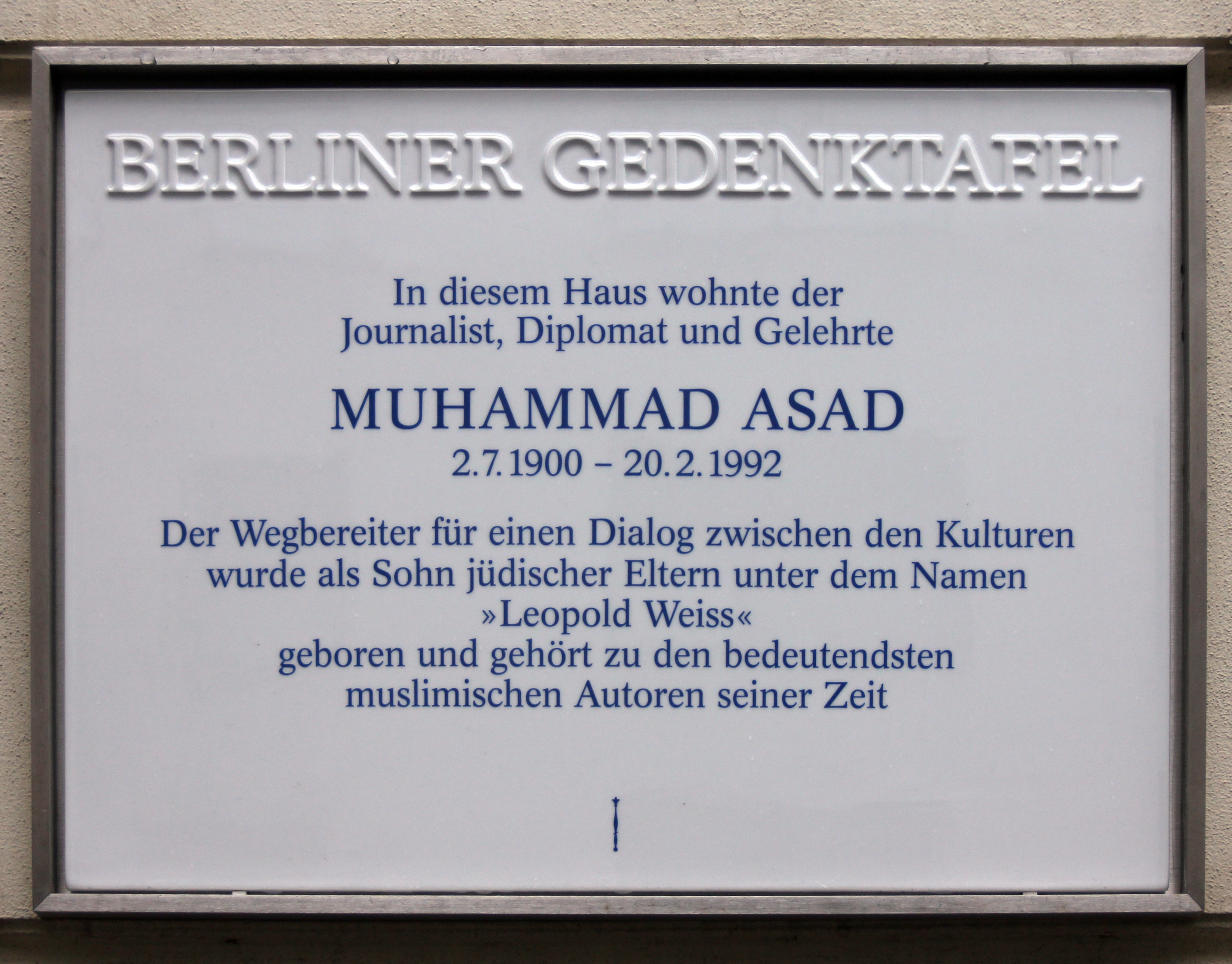 Berlin memorial plaque, Muhammad Asad, Hannoversche Straße 1, Berlin-Mitte, Germany